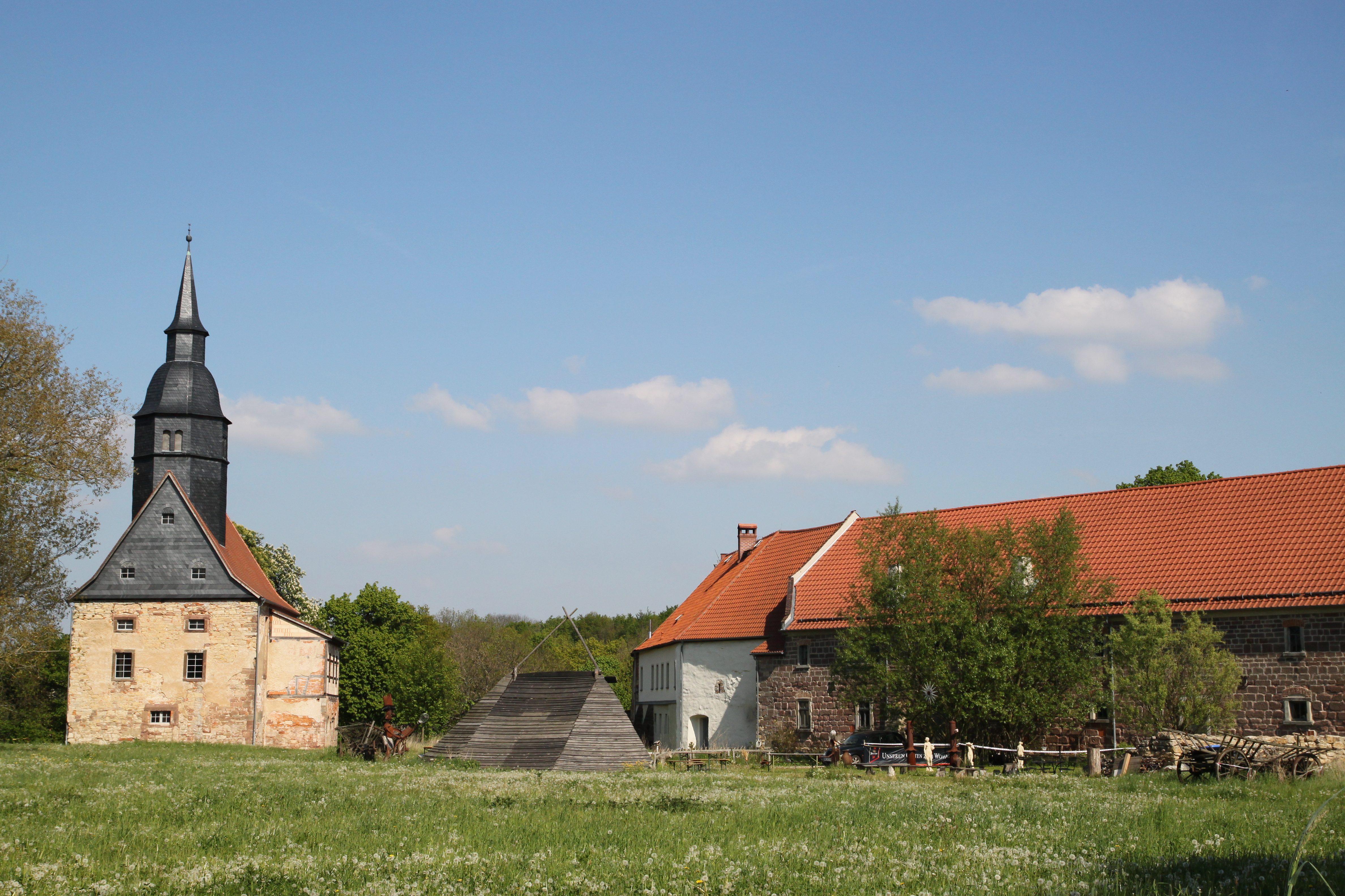 church and farmstead of the German village Schöngleina